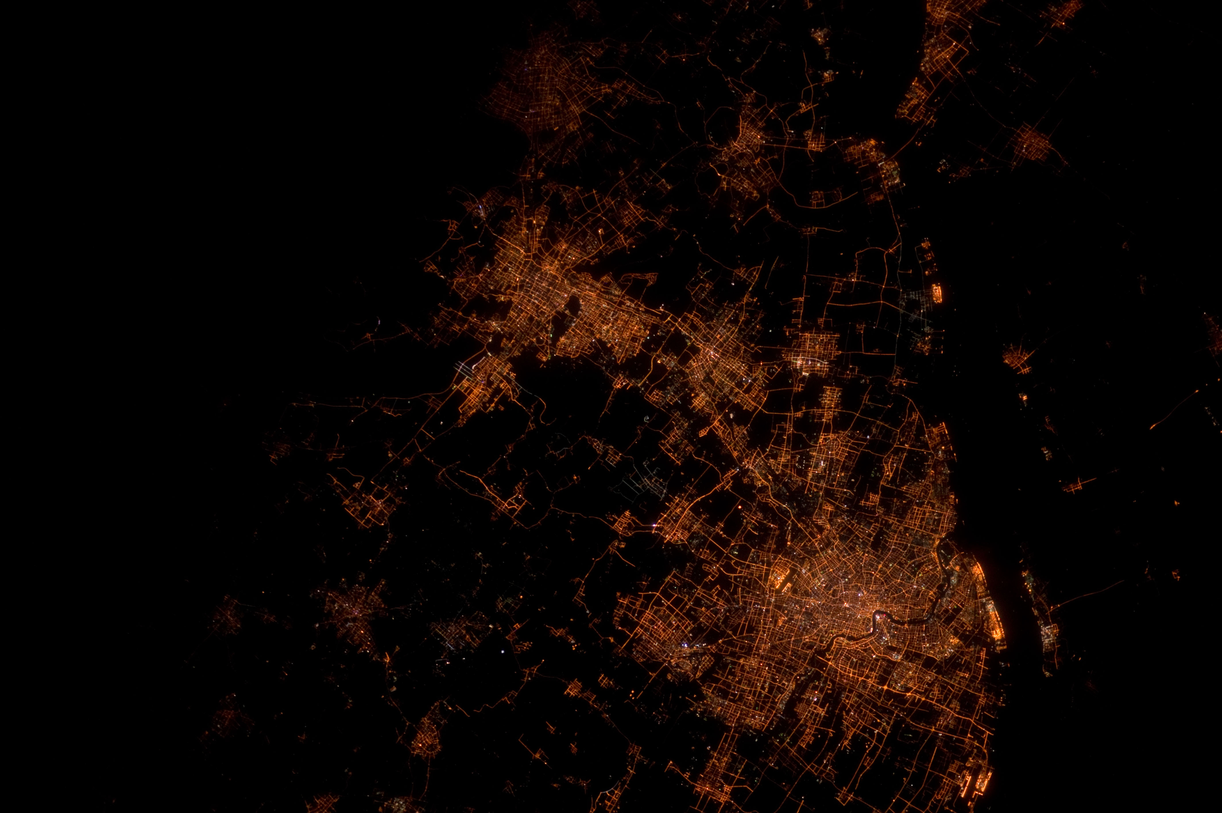 A nighttime view of Shanghai is featured in this image photographed by an Expedition 30 crew member on the International Space Station. The city of Shanghai sits along the delta banks of the Yangtze River along the eastern coast of China. The city proper is the world's most populous city (the 2010 census counts 23 million people, including "unregistered" residents). With that many humans, the city is a tremendous sight at night. Shanghai is a key financial capital for China and the Asian Pacific region. The bright lights of the city center and the distinctive new skyscrapers that form the skyline along the Pudong district (the eastern shore of the Huangpu River, a tributary of the Yangtze that cuts through the center of Shanghai) make for spectacular night viewing both on the ground and from space. The official census count in 2000 was 16.4 million; the city population has increased more than 35 per cent since that time. Much of the growth has occurred in new satellite developments like areas to the west of the city (for example, Suzhou). The city's rapid growth and development during the 20th and 21st centuries have come at a cost. Water availability is a key concern, and groundwater withdrawal has resulted in substantial subsidence in and around the city. Because it is built only a few meters above sea level – on the banks of the deltaic estuary of the Yangtze River – curbing subsidence rates is a critical concern.